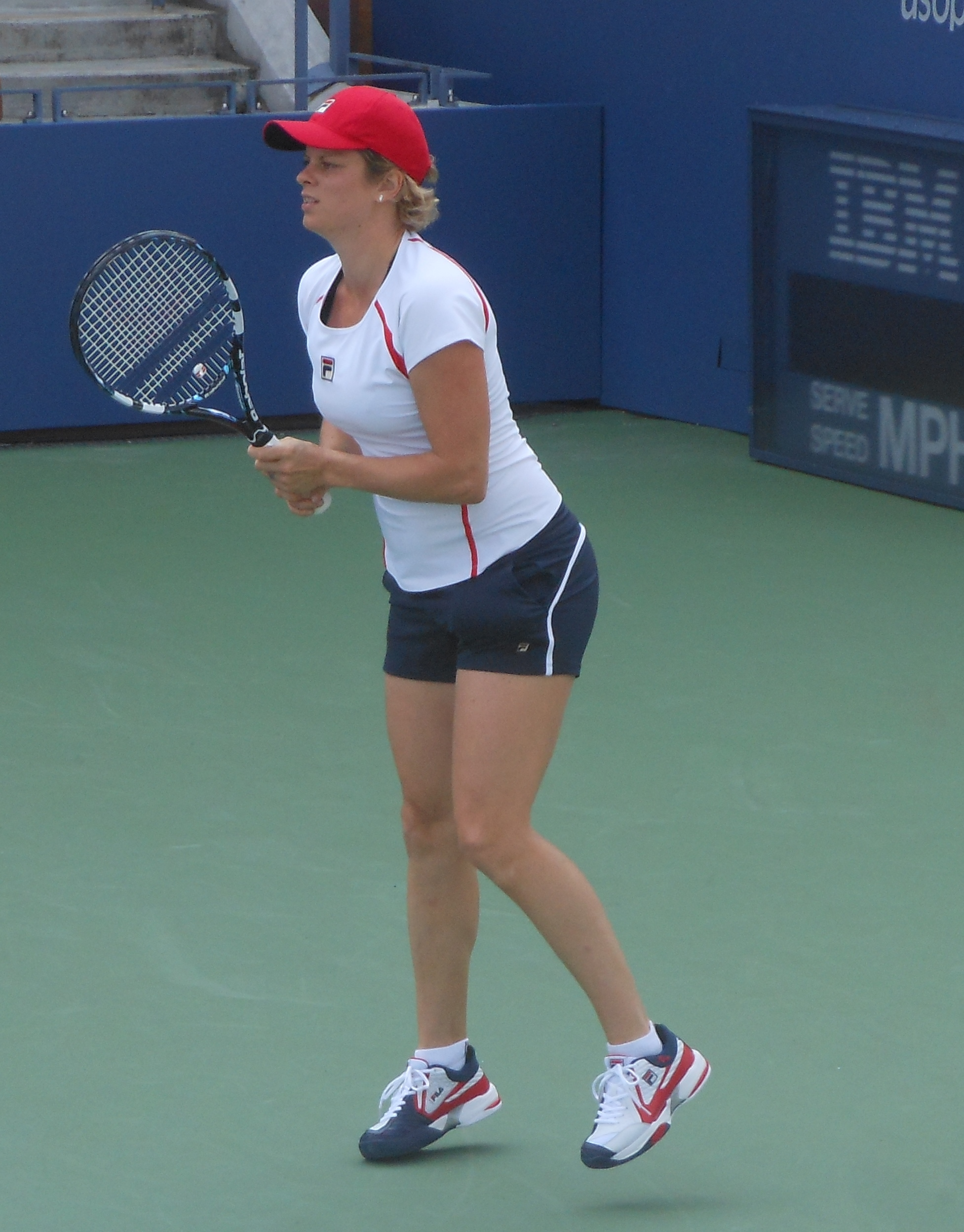 Kim Clijsters 2012 US Open, her final grand slam event and tournament before retiring.